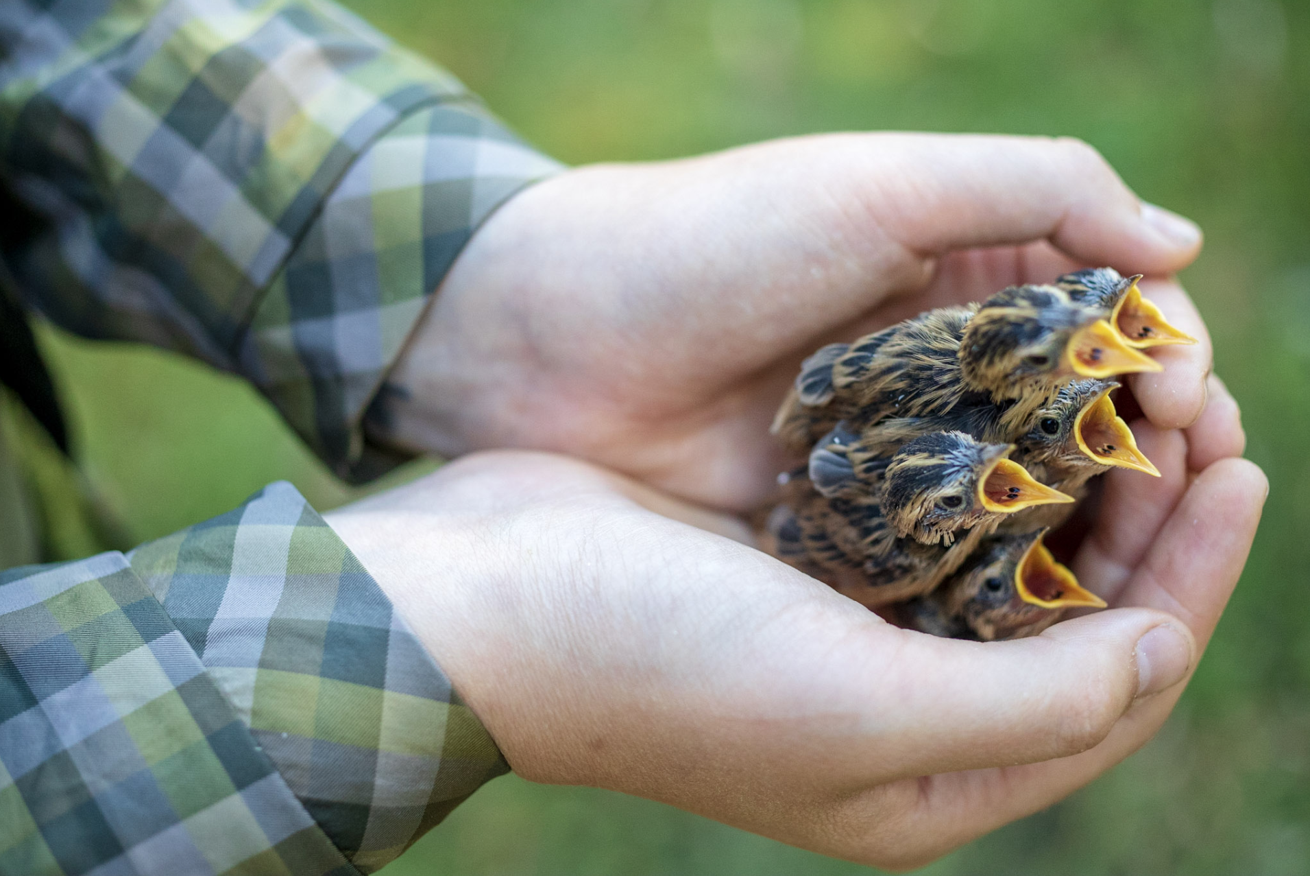 Five translocated aquatic warbler chicks.